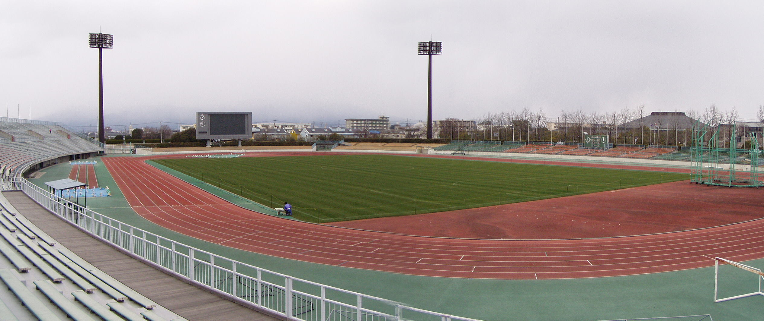 Saga sportspark main stadium.